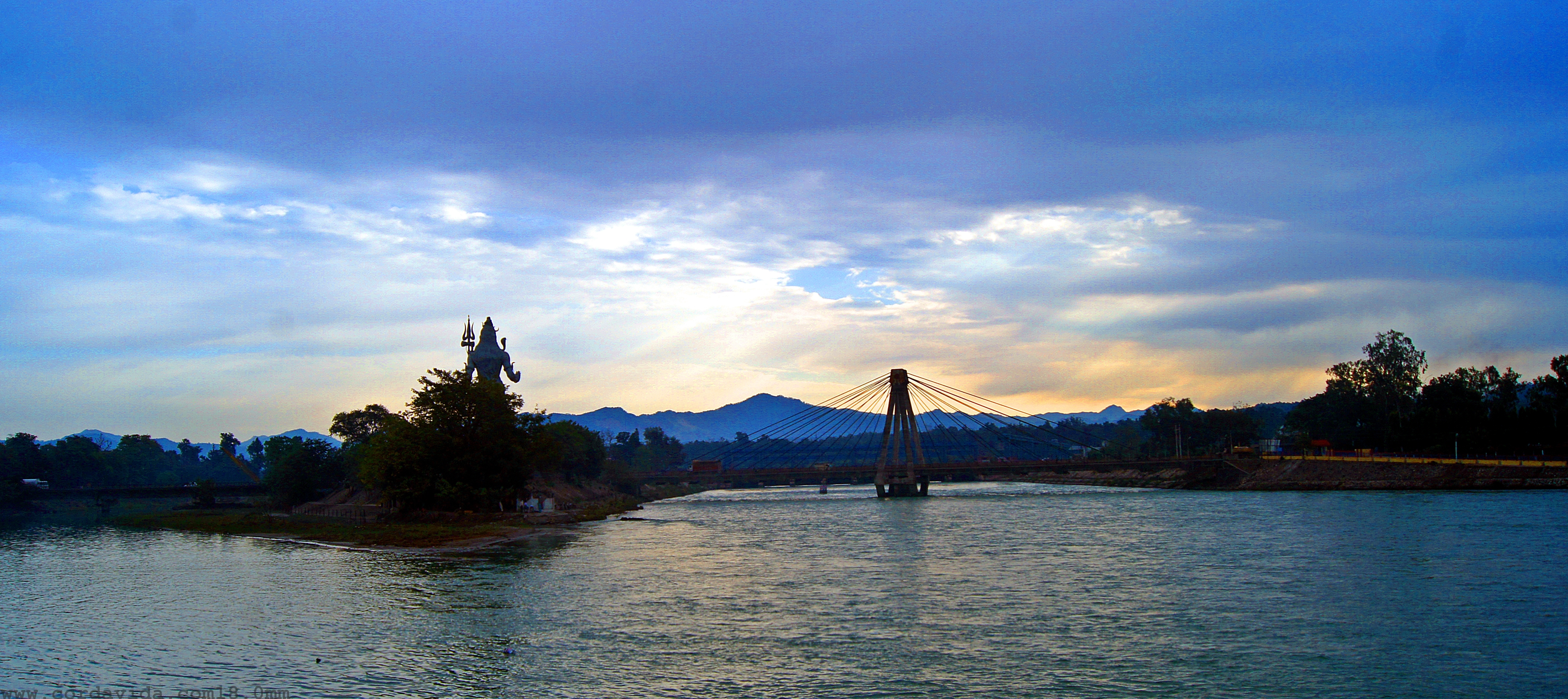 Har ki Pauri - Shiv Moorti